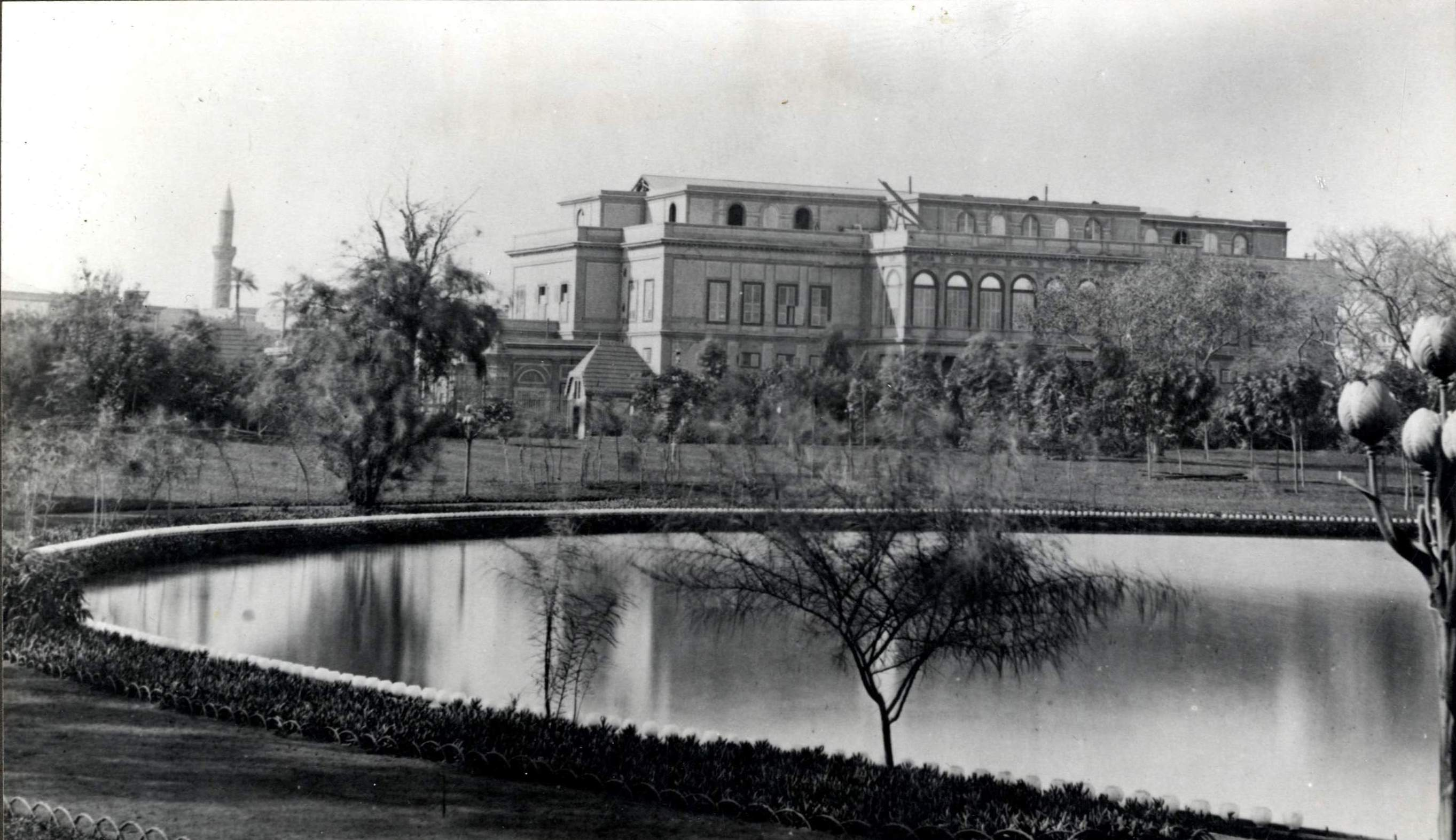 The Khedivial Opera House and Opera Square park in 1869, central Cairo, Egypt.